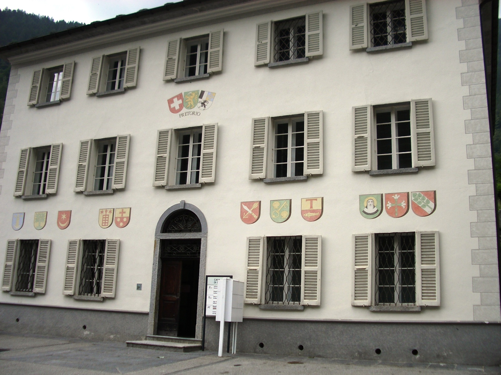 Arvigo GR, Switzerland self-made, July 2006